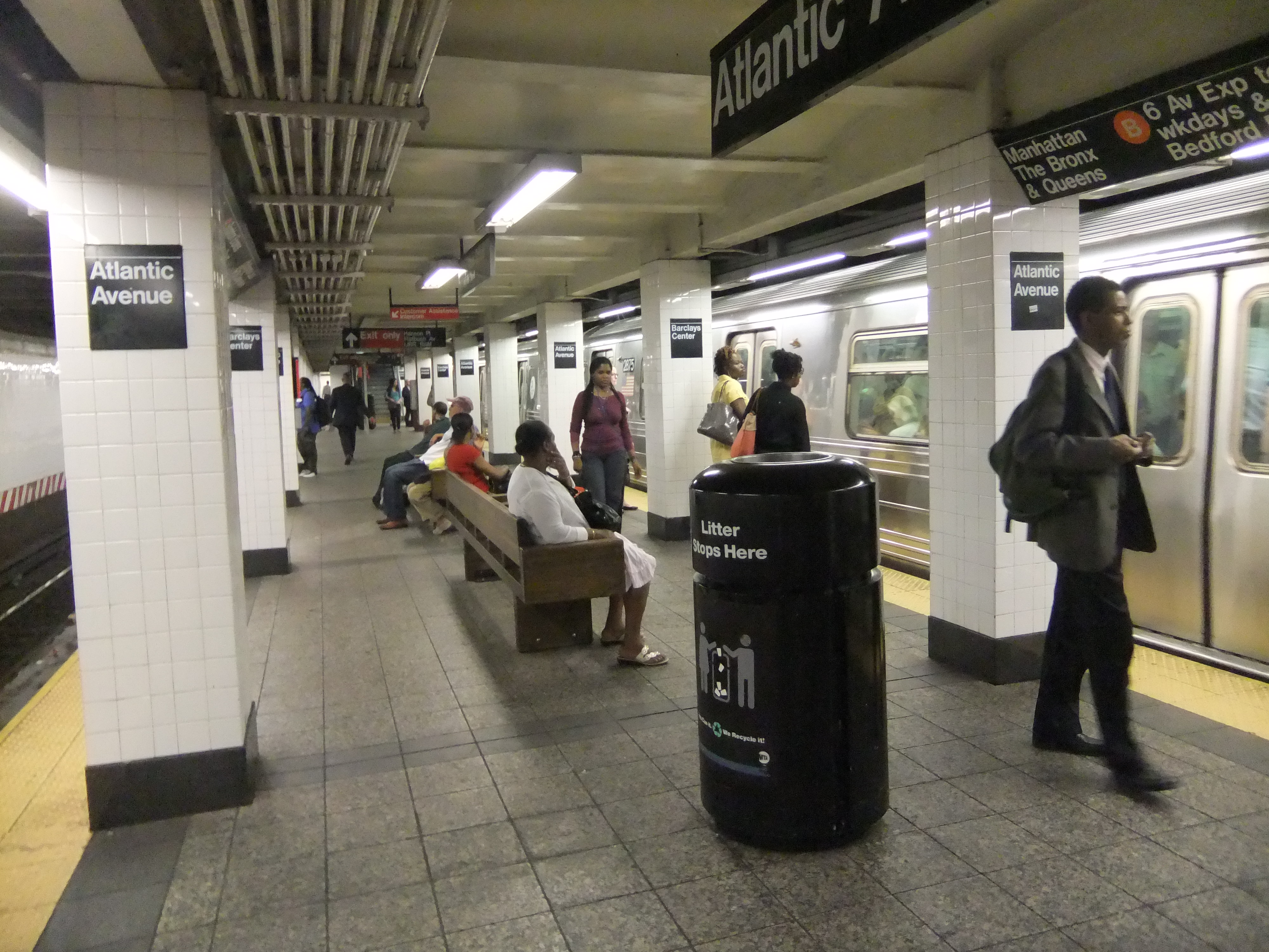 Platform at Atalntic Avenue/Barclays Center (Brighton)